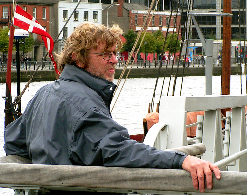 Danish TV-journalist Søren Ryge in Dublin preparing a TV-documentary about the vikingship replica Sea Stallion from Glendalough and the six week long journey from Roskilde to Dublin in the summer 2007